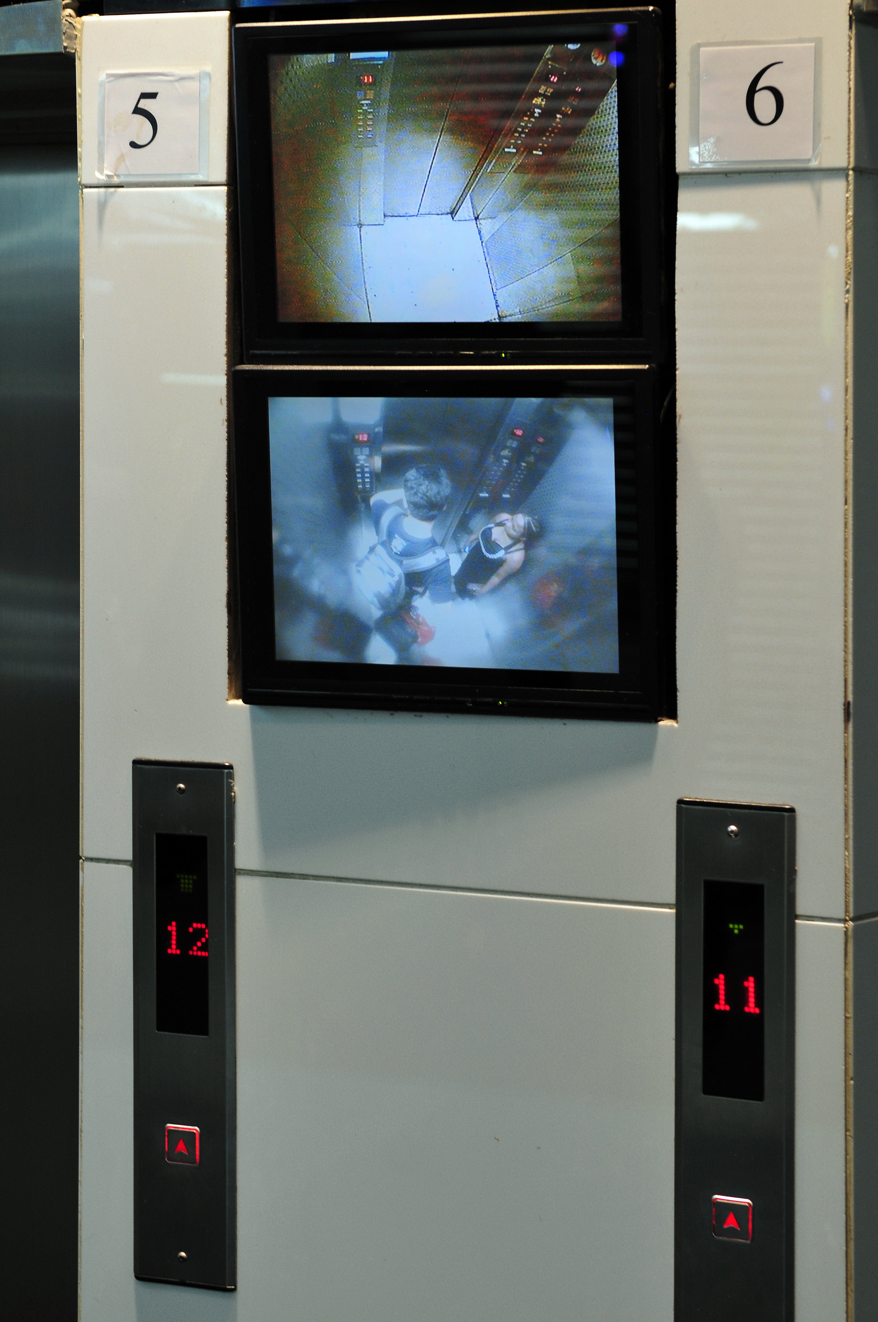 CCTV in the lifts at Chung King Mansions, Hong Kong